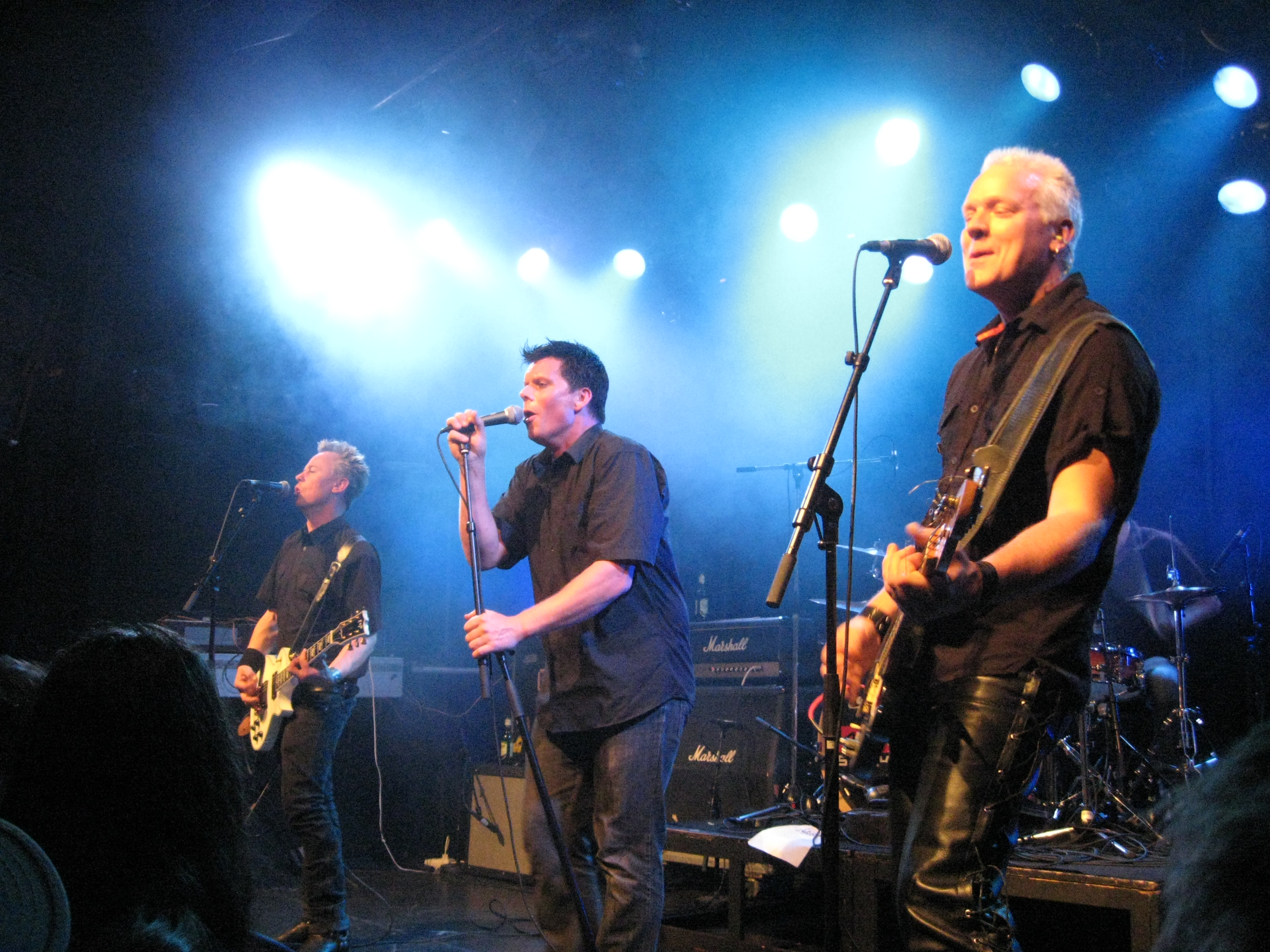 Rolands gosskör playing at Beat Butcher's 25 year jubilee.